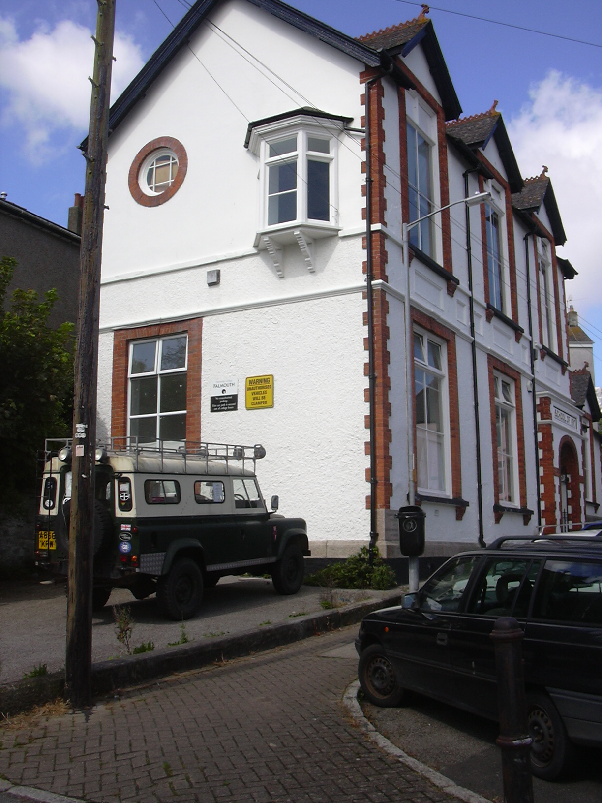 Falmouth School of Art Annexe, Arwenack Avenue